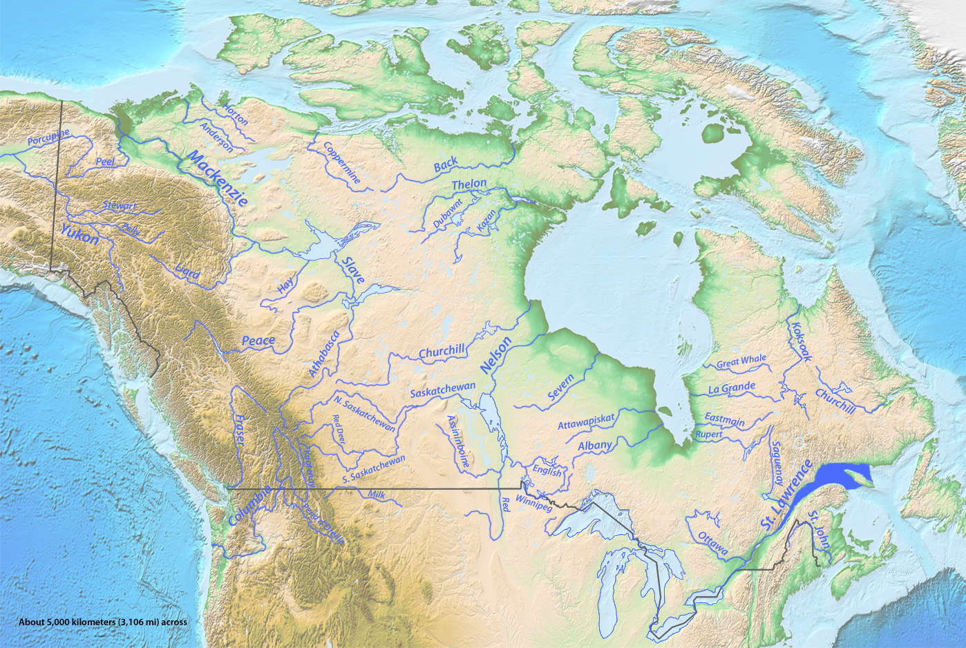 Map to go with List of longest rivers of Canada